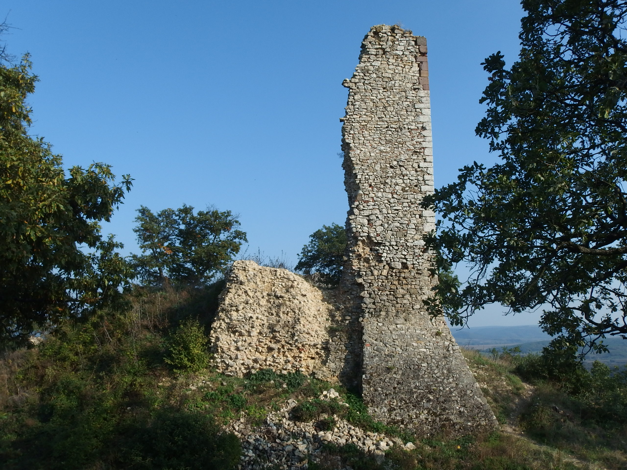 Castle of Csővár